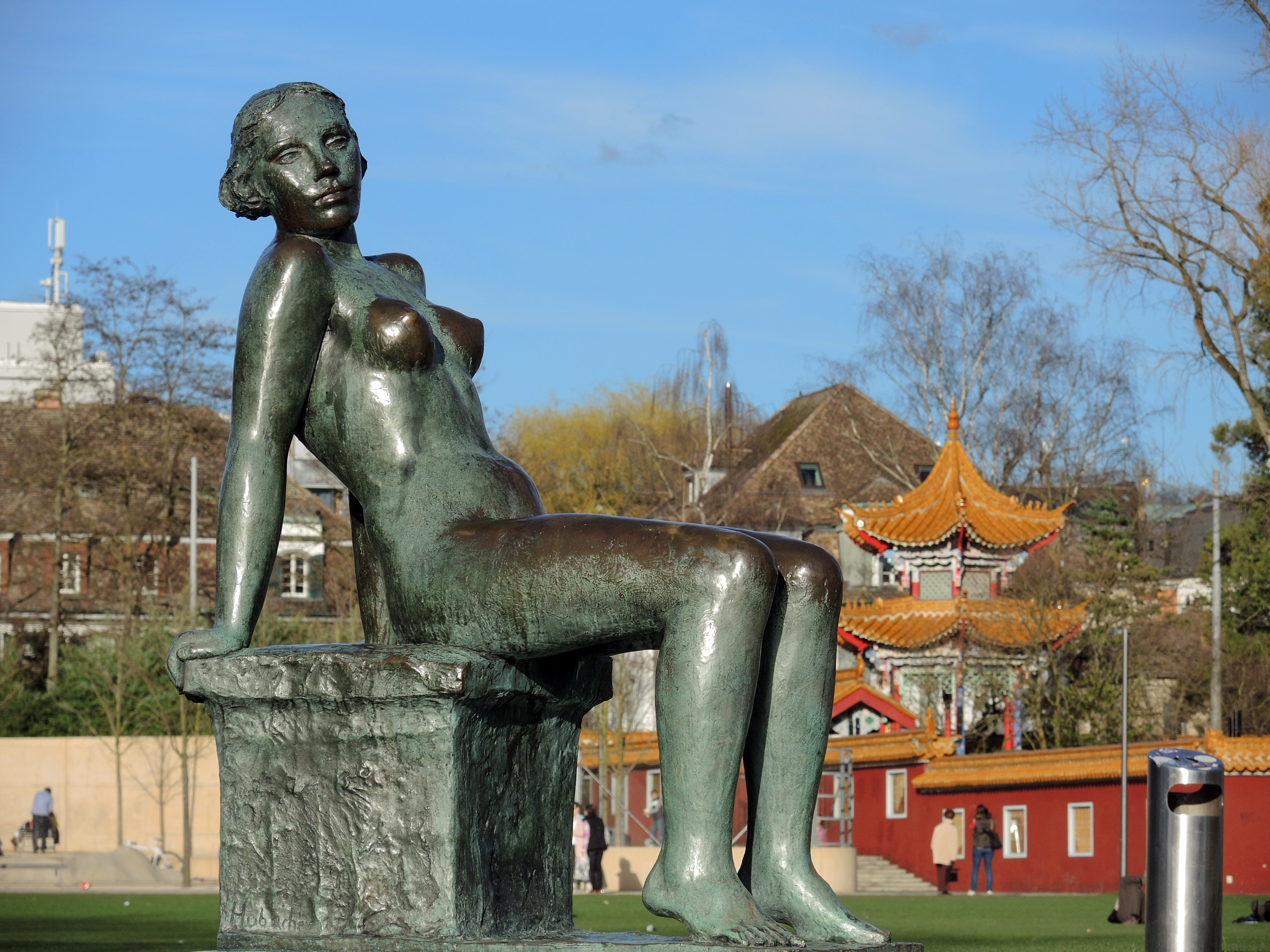 Sitzende ("sitting lady") by Hermann Hubacher, Seefeldquai respectively lakeshore Blatterwiese in Zürich-Seefeld (Switzerland), Chinagarten in the background.